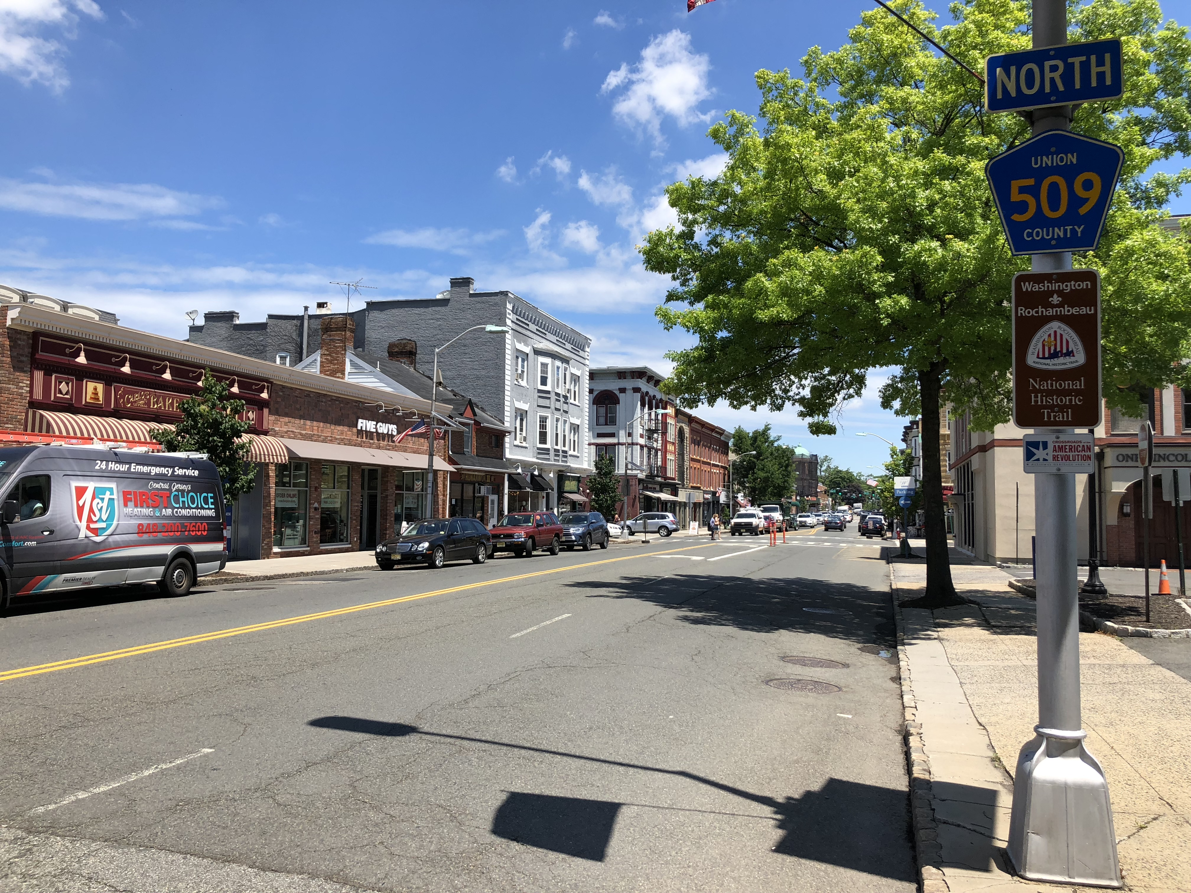 View north along Union County Route 509 (East Broad Street) just north of New Jersey State Route 28 (North Avenue) in Westfield, Union County, New Jersey